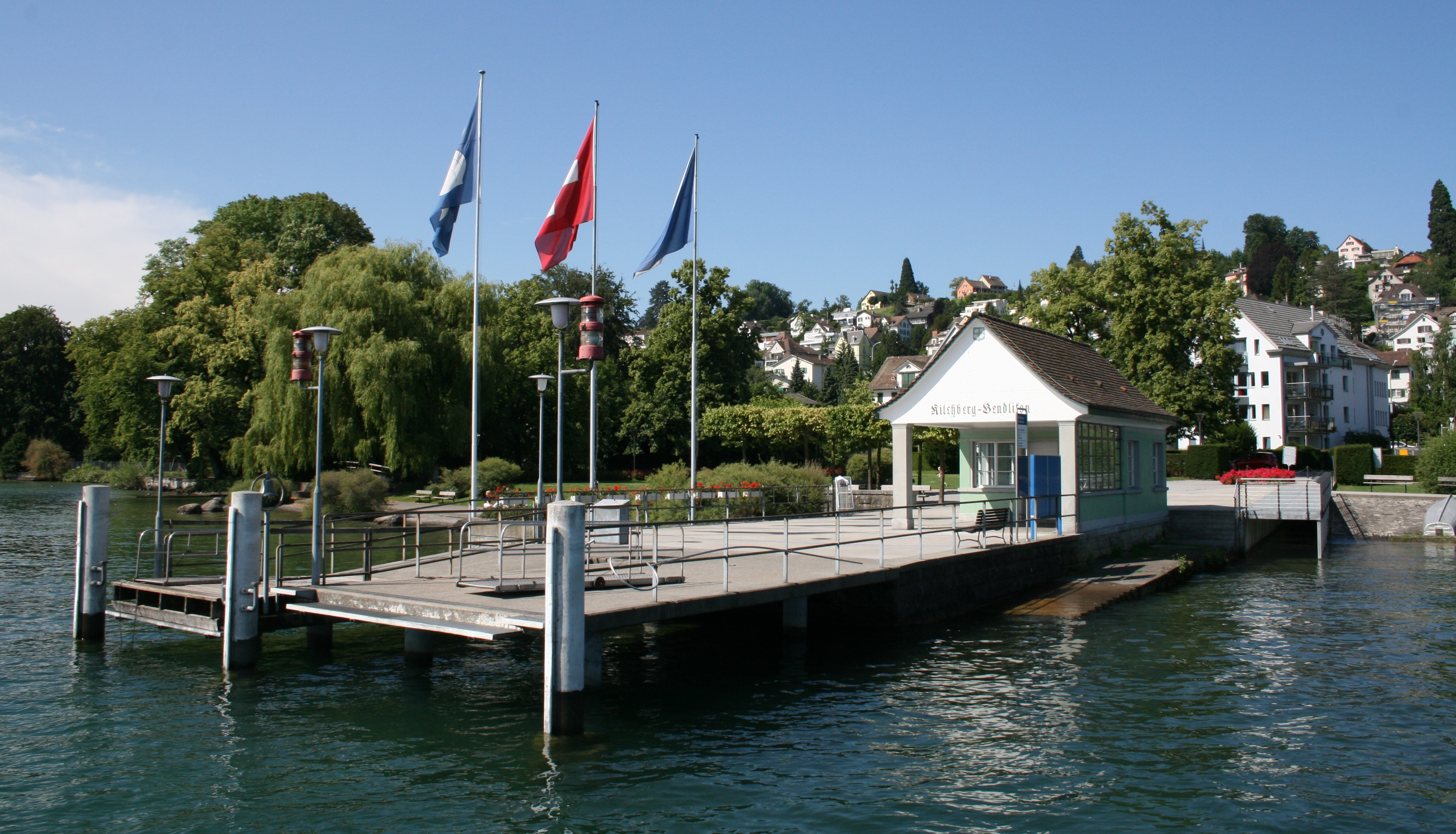 Suisse: Kilchberg Bendlikon Station seen from Lake Zurich